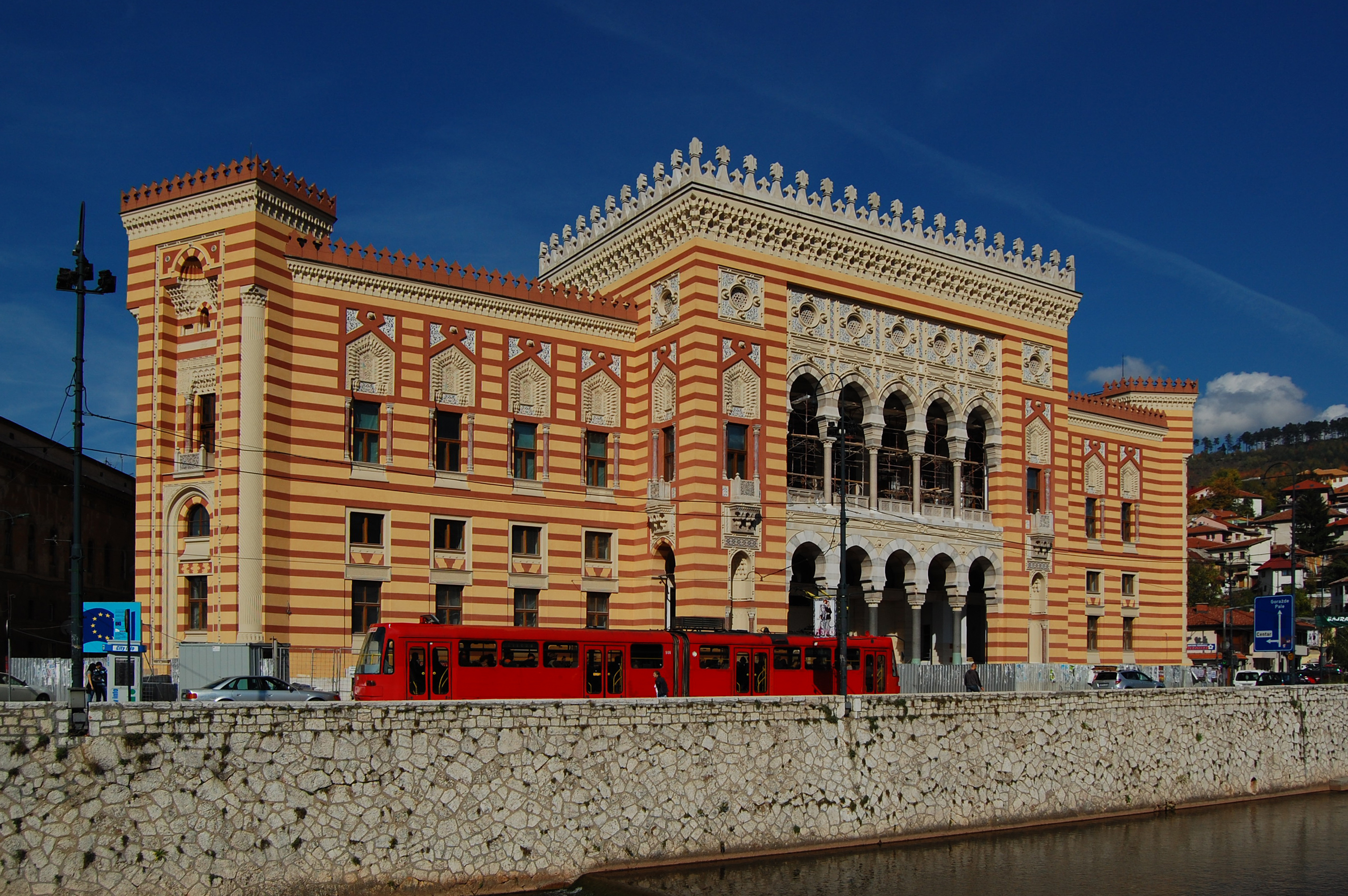 Tram #506 at Vijećnica, Line #3, October 14, 2013